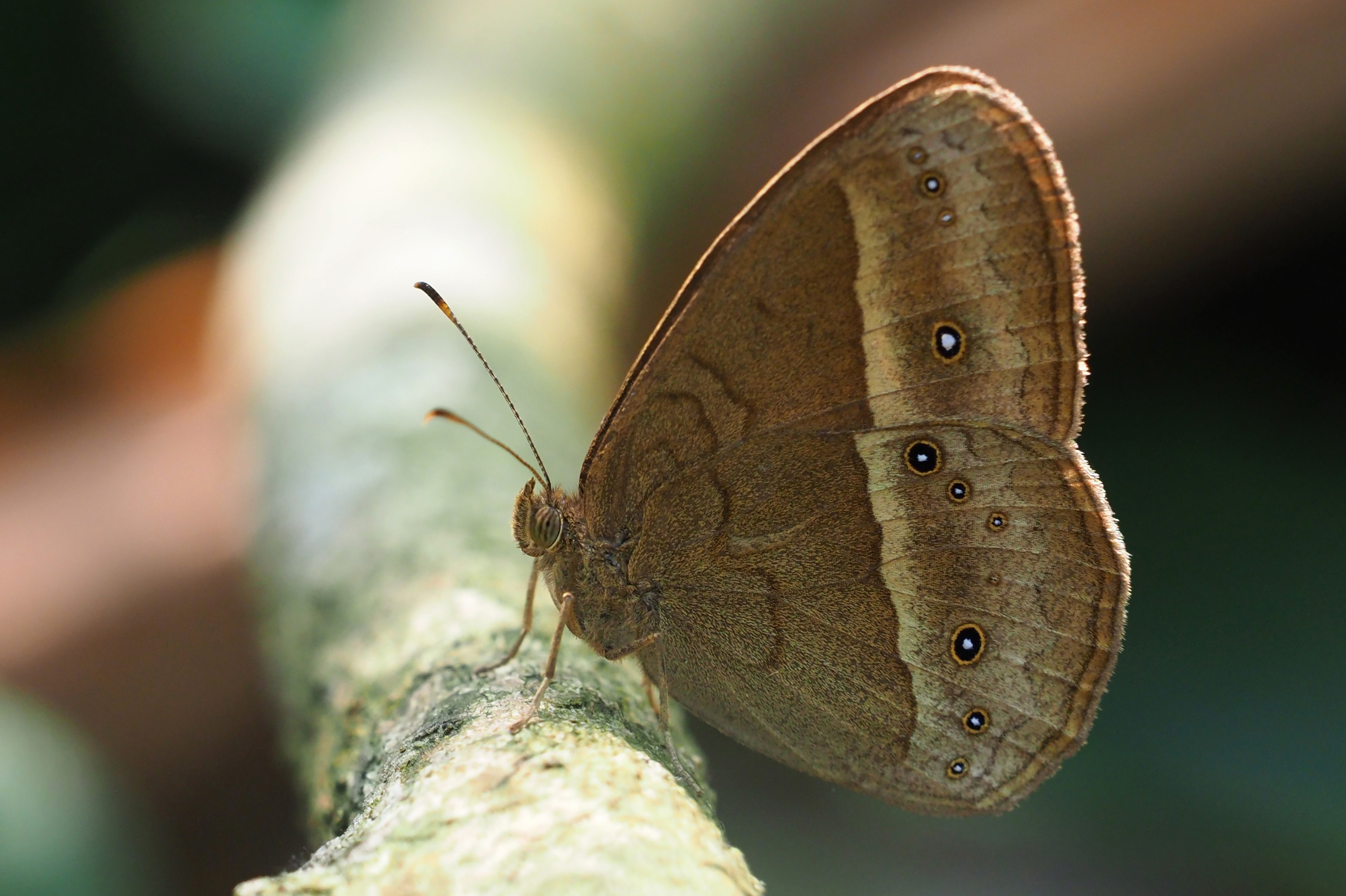 Mycalesis gotama nanda in dry season.